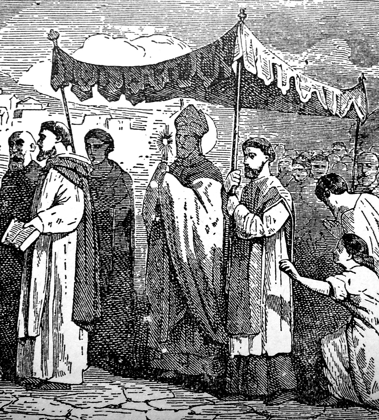 Saint Mamertus (or Mammertus)